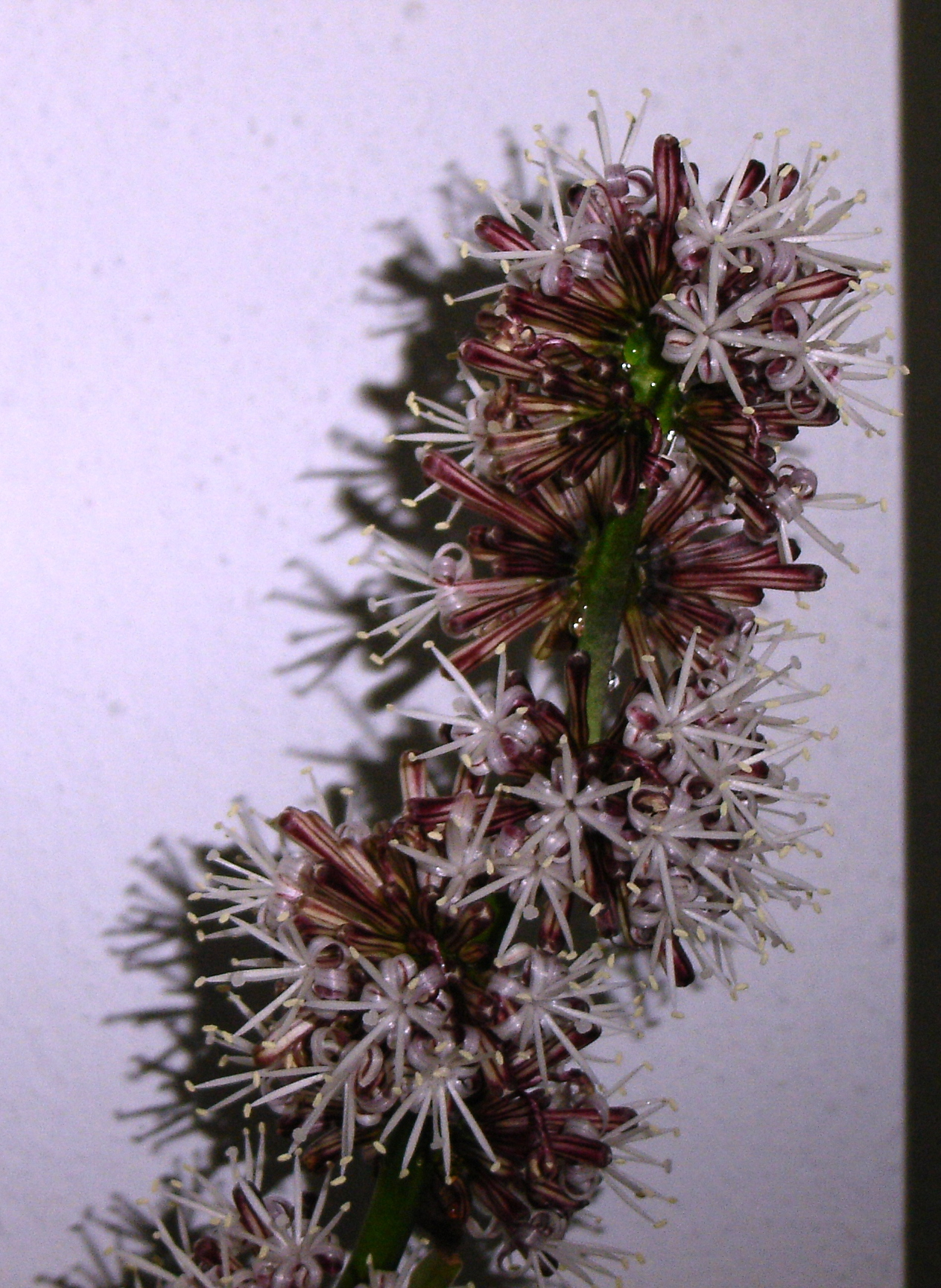 Dracaena flower